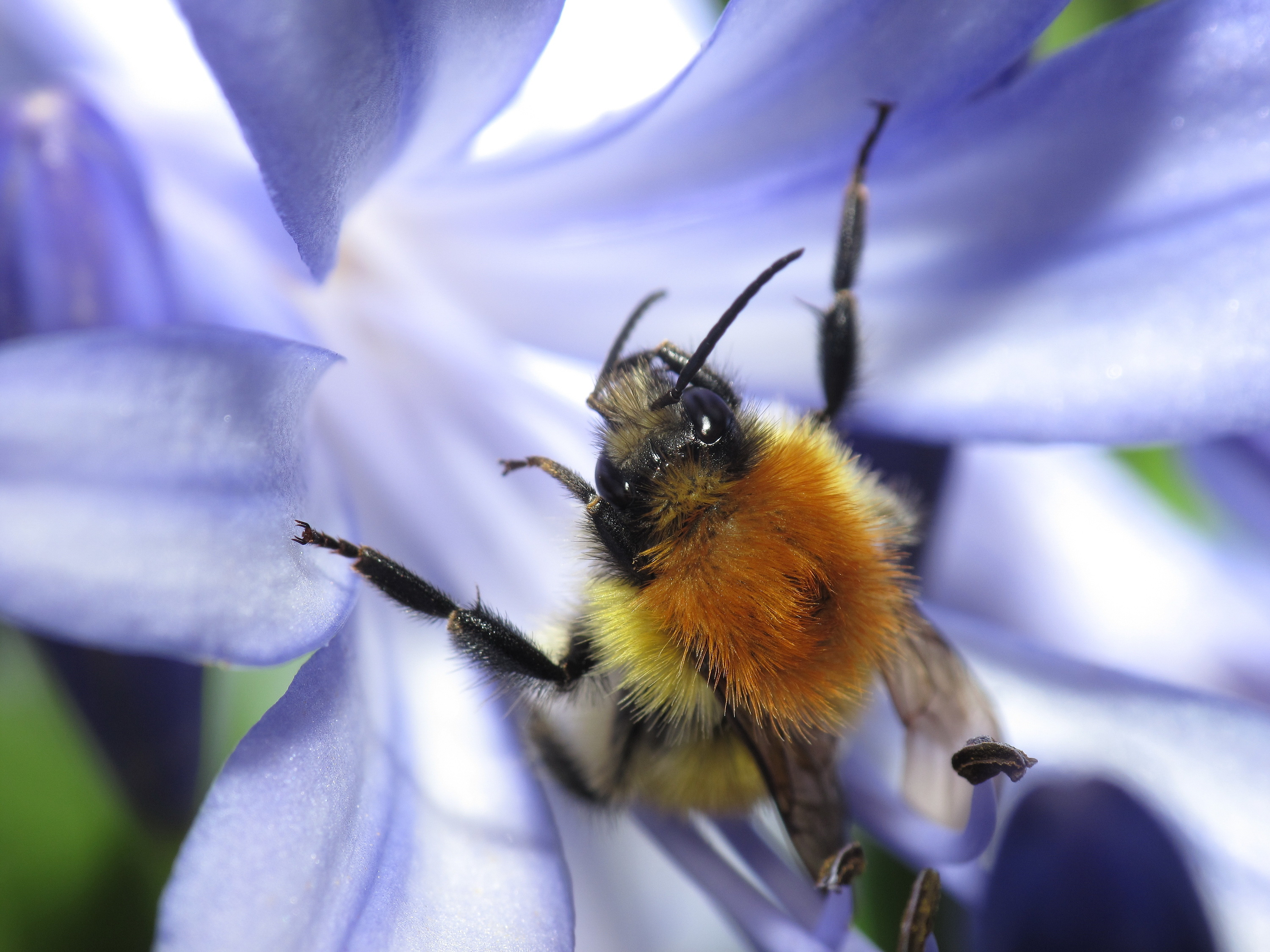 Category:Bombus (Thoracobombus), Bastavales, Brión, Galicia, Spain